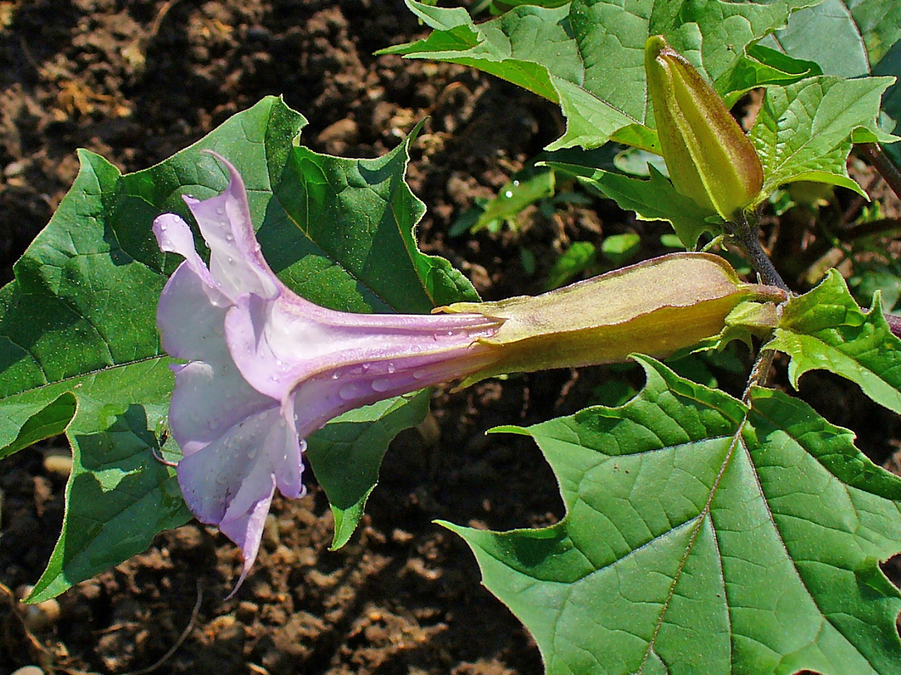 Datura stramonium, Solanaceae, Jimson Weed, Angel's Trumpet, Devil's Weed, Thorn Apple, Tolguacha, Jamestown Weed, Stinkweed, Datura, Moonflower, flower; Botanical Garden KIT, Karlsruhe, Germany. The blooming plant is used in homeopathy as remedy: Stramonium (Stram.)